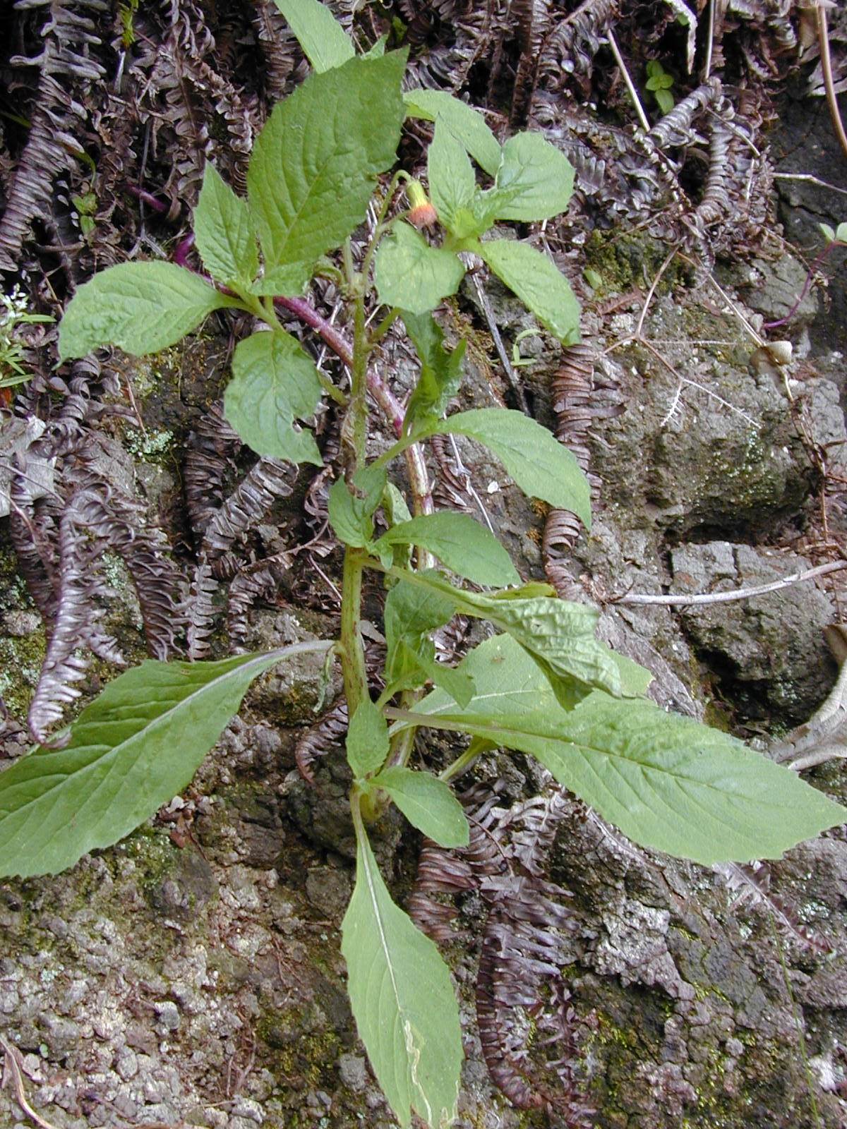 Crassocephalum crepidioides (habit). Location: Maui, Wahinepee